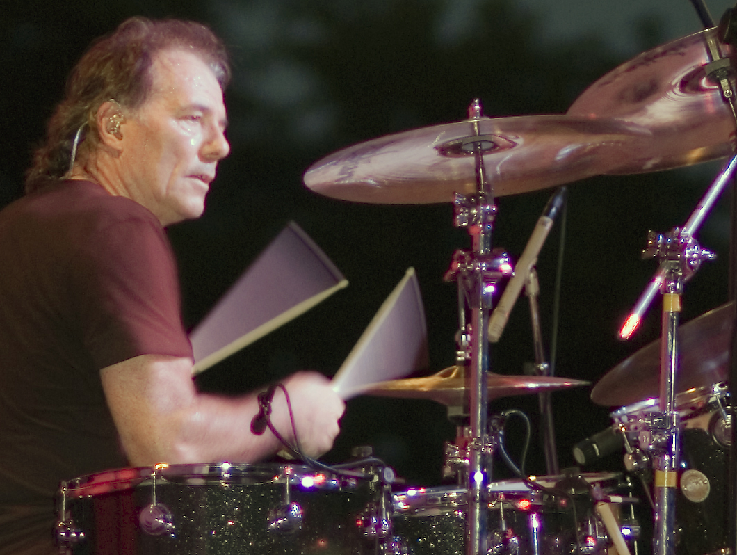 Aynsley Dunbar, Journey's first drummer, now touring with members of Steppenwolf, Toto, and Santana as "World Classic Rockers". Playing DW Drums, black sparkle finish, Zildjian cymbals.